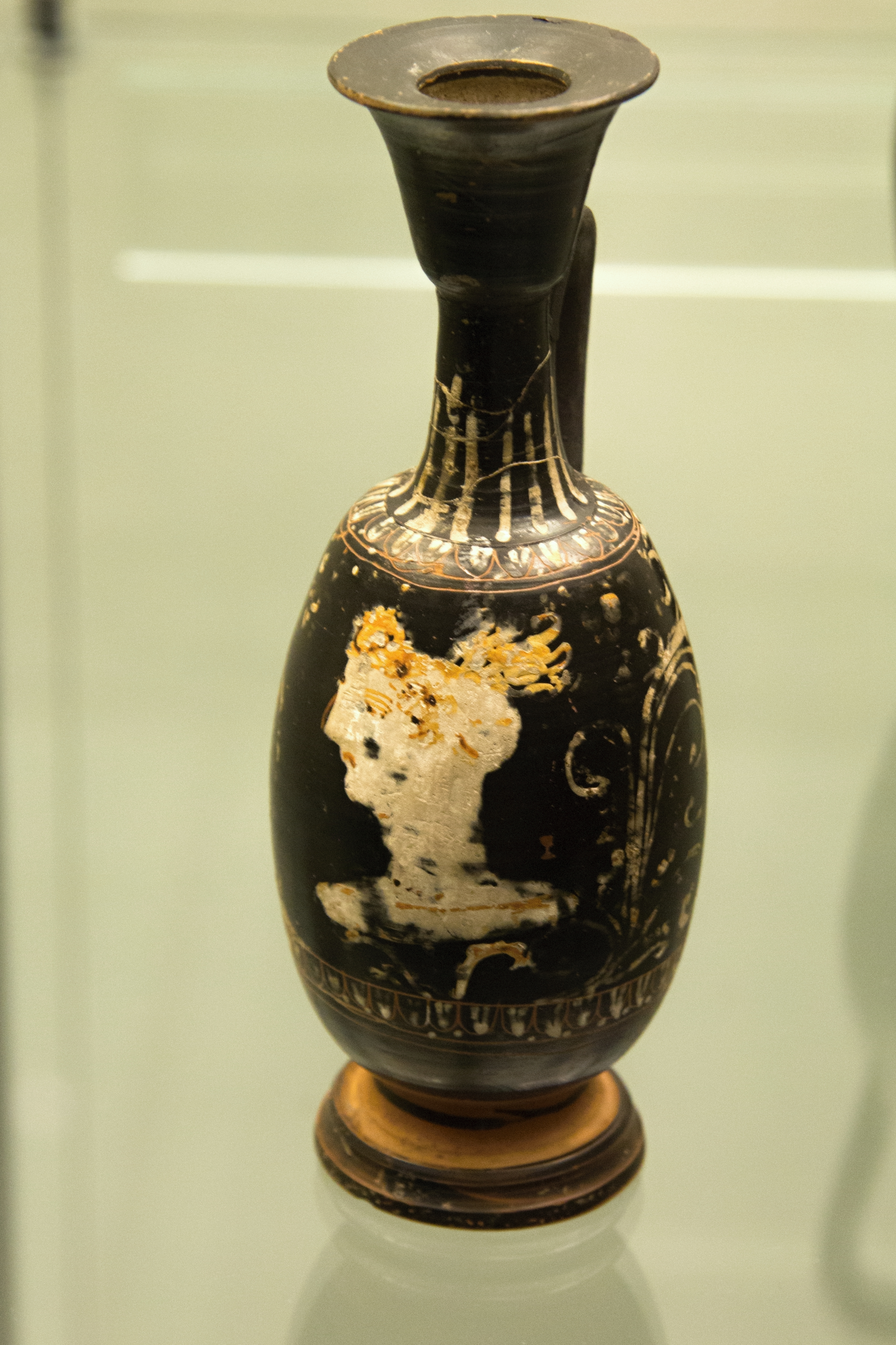 Gnathia Ware. Southern Italy, 310 to 260 BC. Prague, NM-H10 2141.